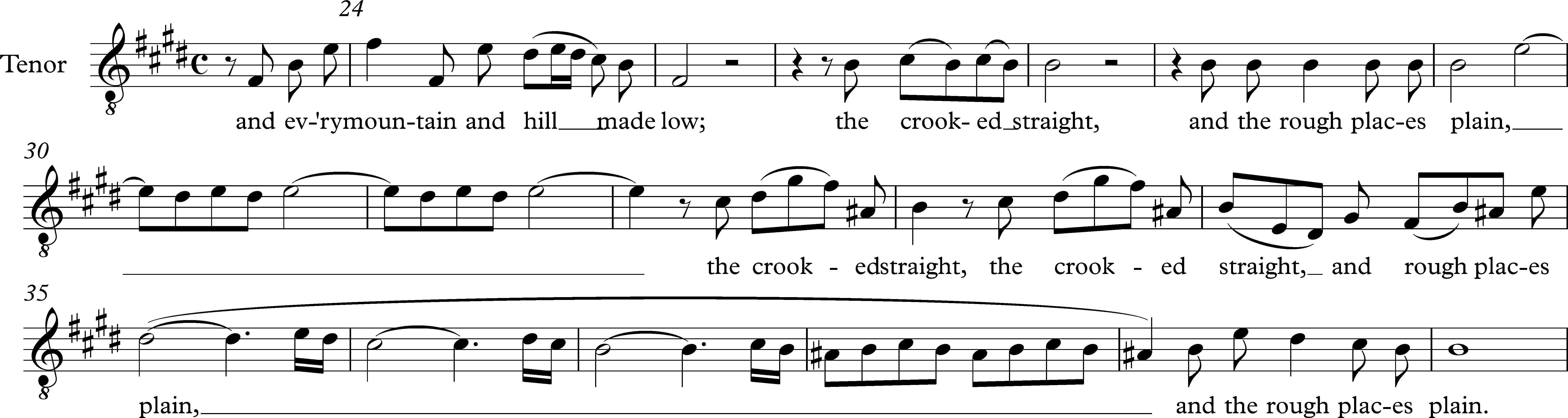 Measures 24-41 of the Tenor line of Every valley shall be exalted Handel's Messiah.